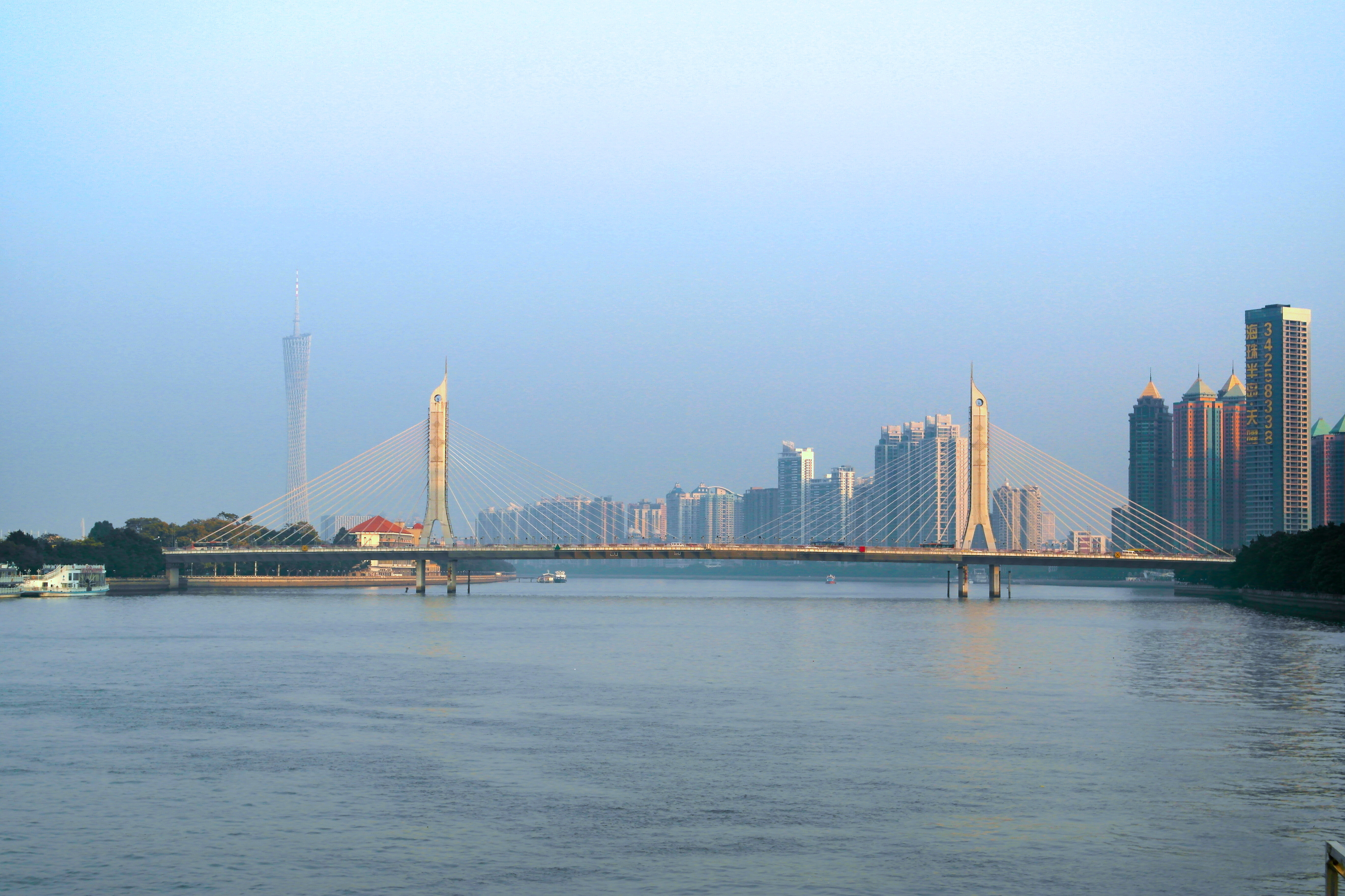 2015 China Guangzhou Pearl River 海印大桥 - Haiyin Bridge